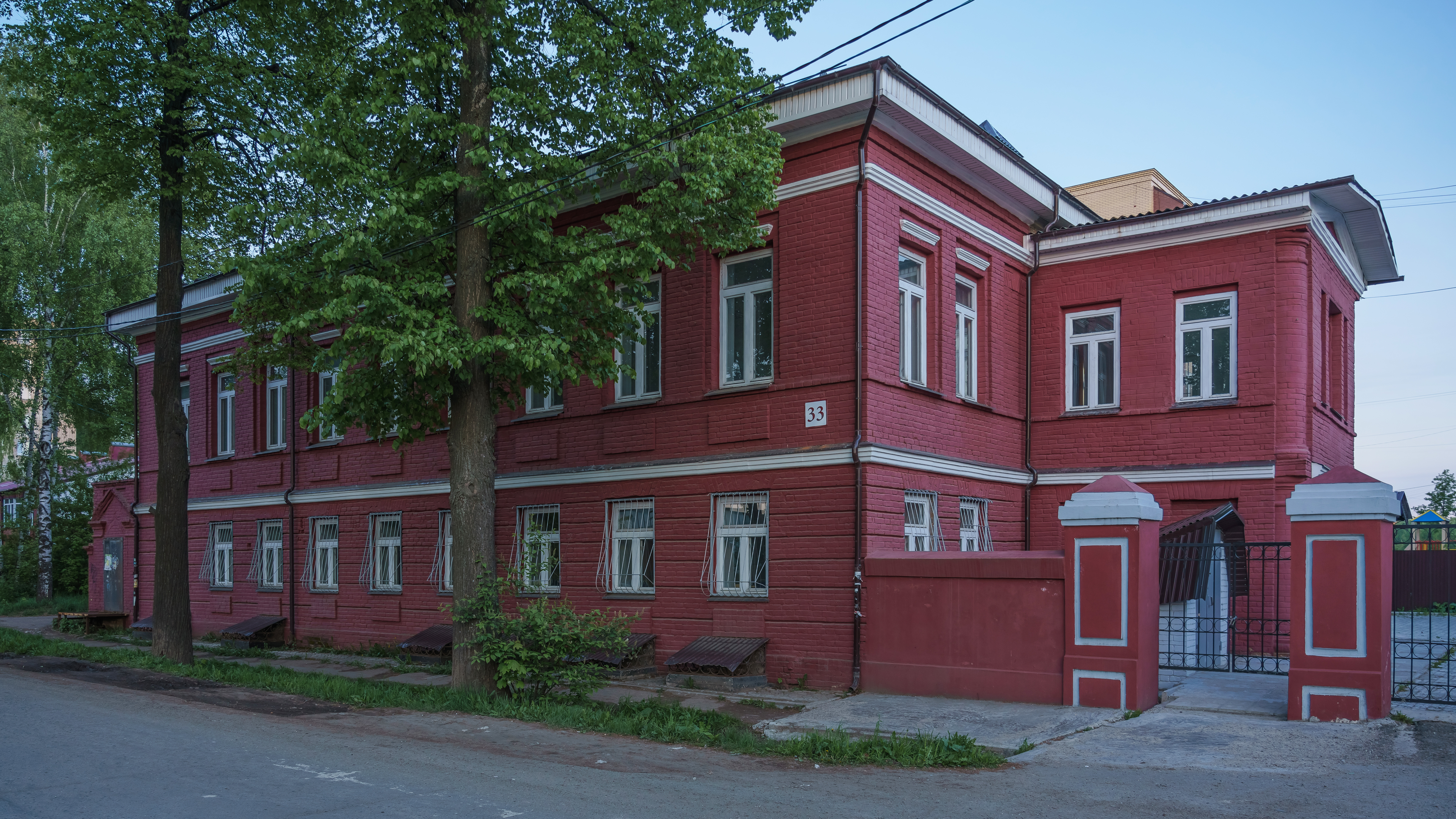 Building at Pervomaiskaya Street 33 in Glazov, Udmurtia, Russia